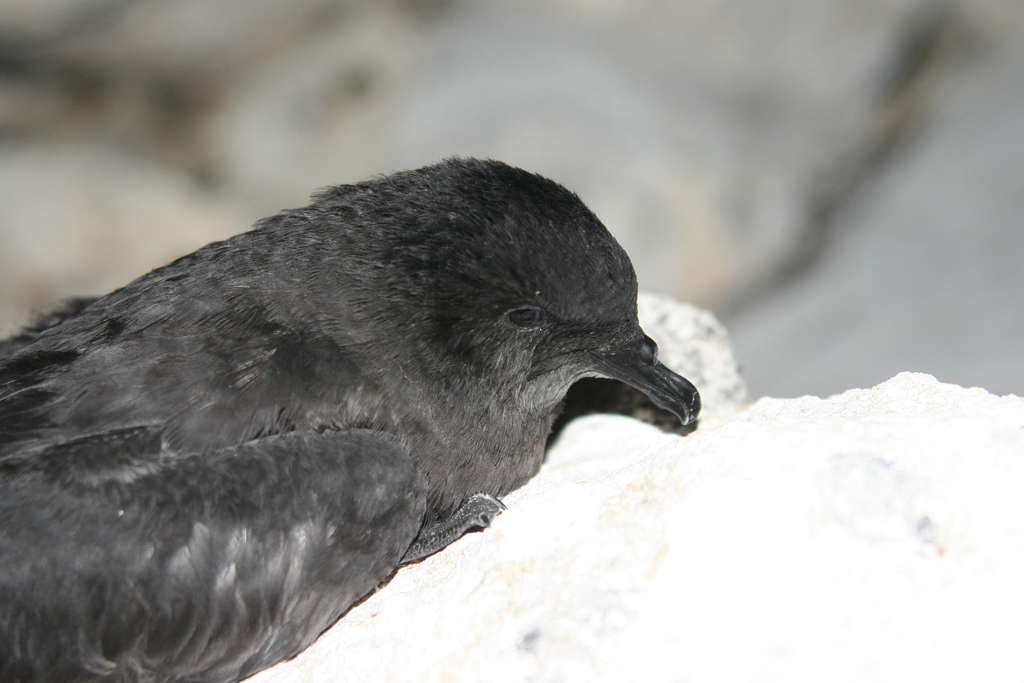 This Bulwer's Petrel (Bulweria bulwerii) was scurrying around in rocks near the coastguard landfill. Tern Island, Northwestern Hawaiian Islands.